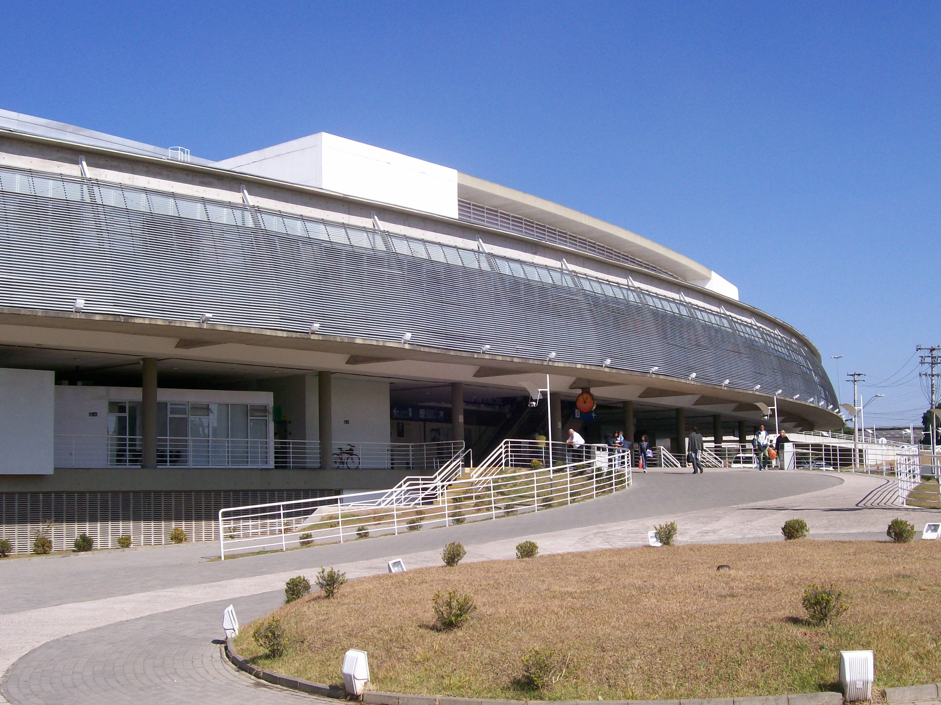 Campinas Bus Terminal as seen from its facade.